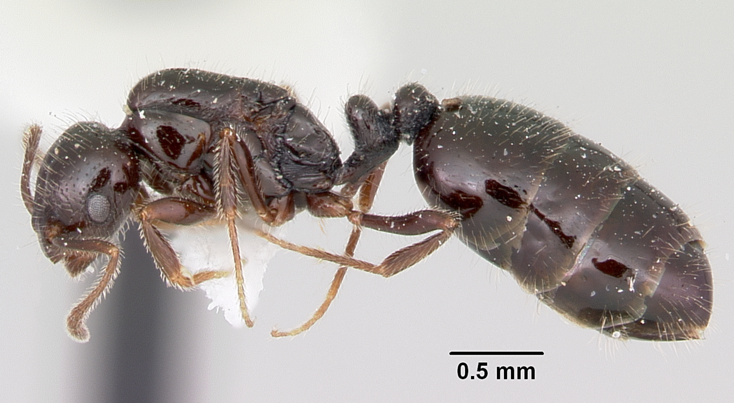 Profile view of ant Monomorium ergatogyna specimen casent0103533.